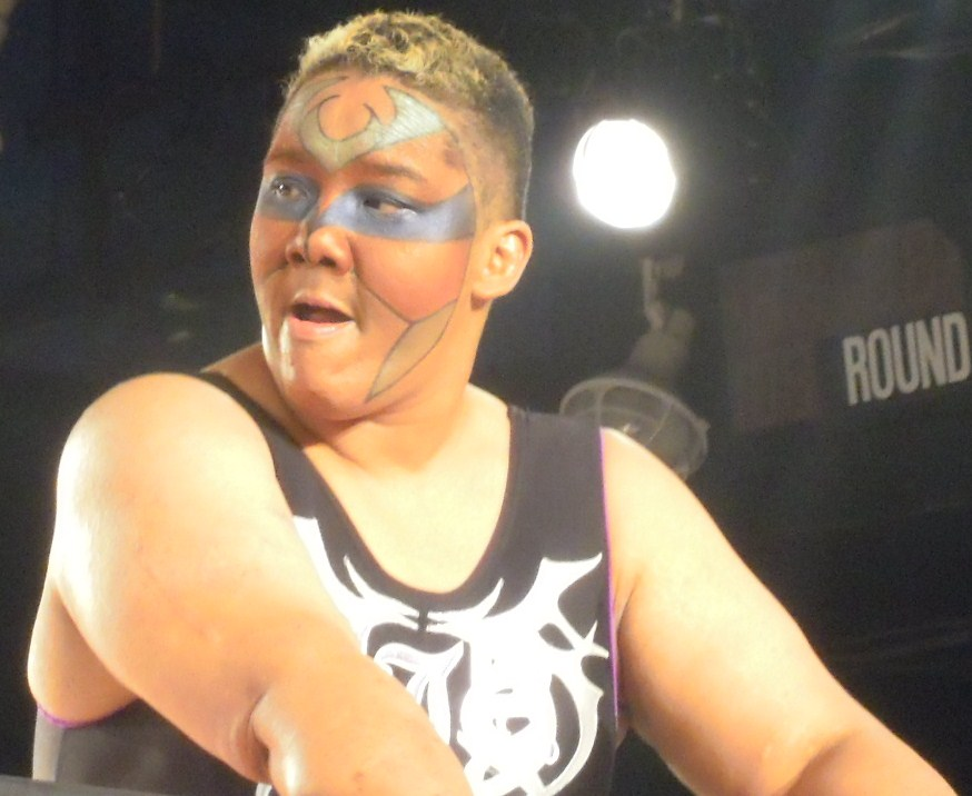 Aja Kong, Japanese female wrestler.